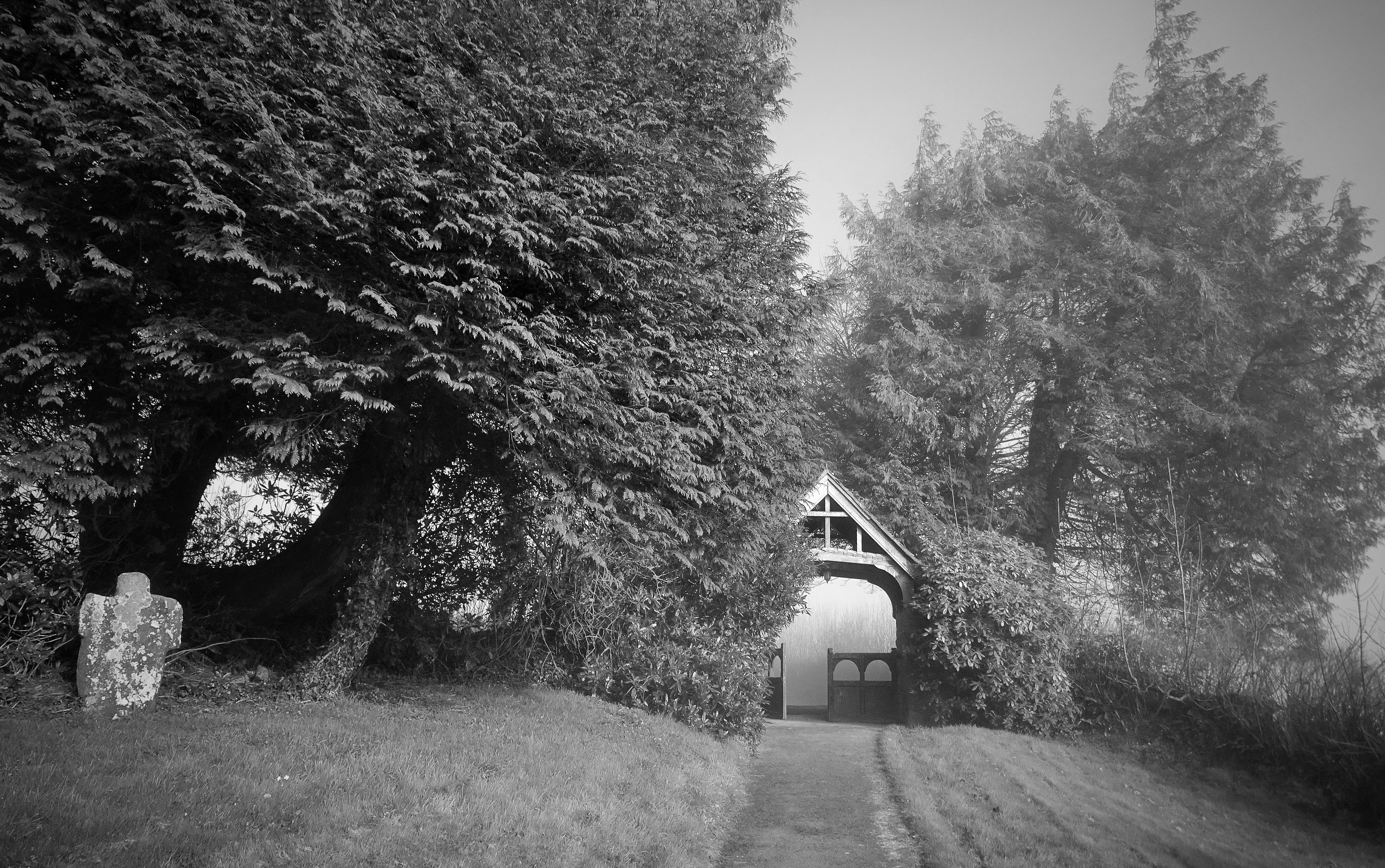 Ancient Carved Cross and Lychgate at St Cledwyn's Church, Llanglydwen Wikidata has entry Q29498780 with data related to this item.